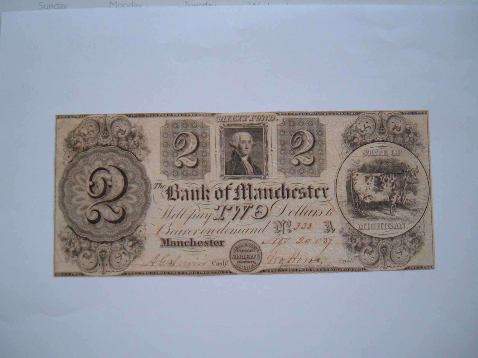 Banknote issued by a private company. The value of this note is maintained by a payment promise. See free banking. Text: "The Bank of Manchester will pay two Dollars to Bearer on demand."